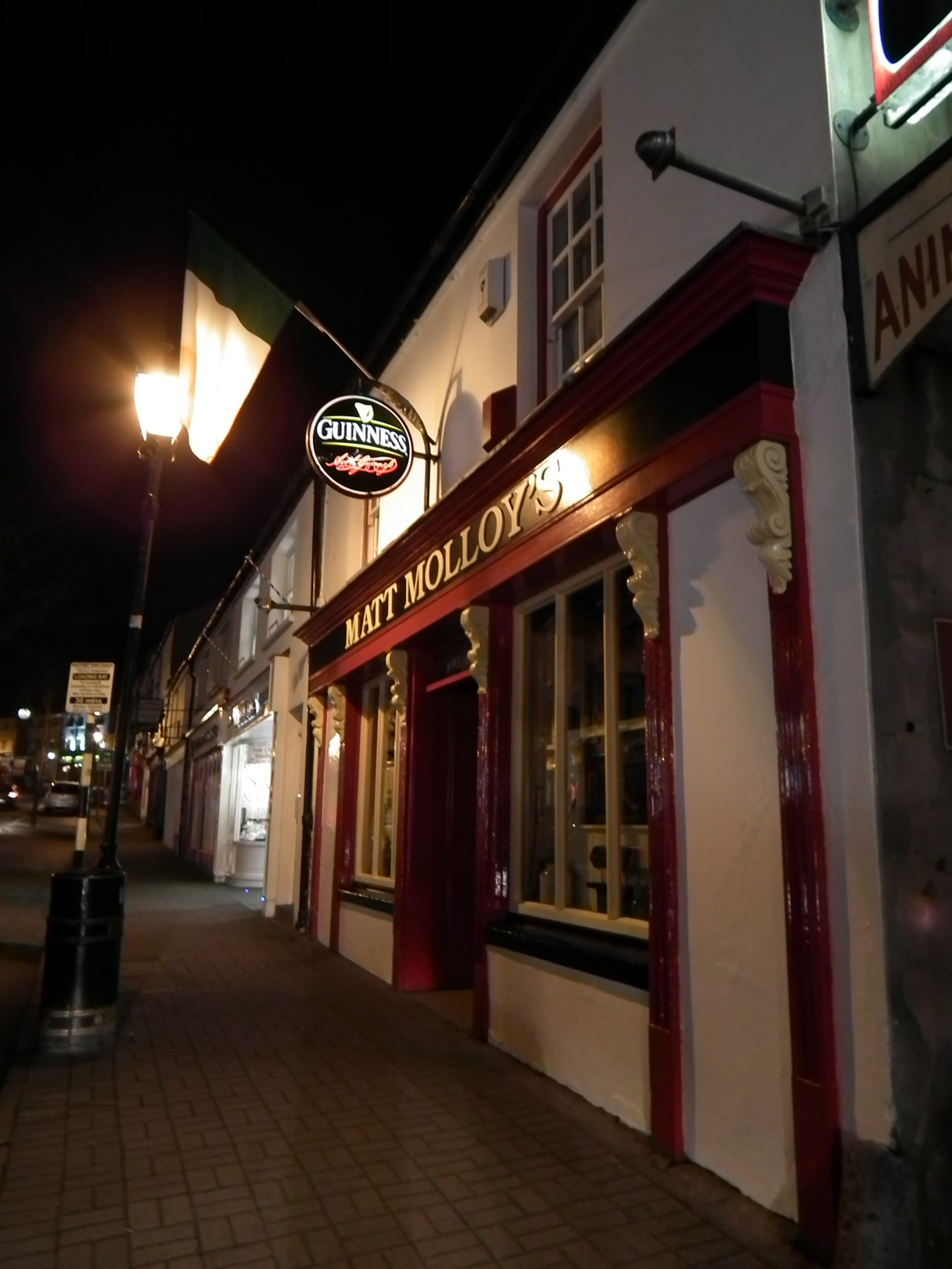 Witryna pubu Matt Moloys